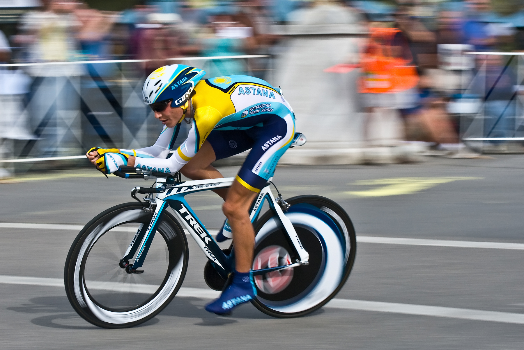 Janez Brajkovič - 2009 Tour of California. As seen on course in Los Olivos during the stage 6 time trials starting in Solvang.